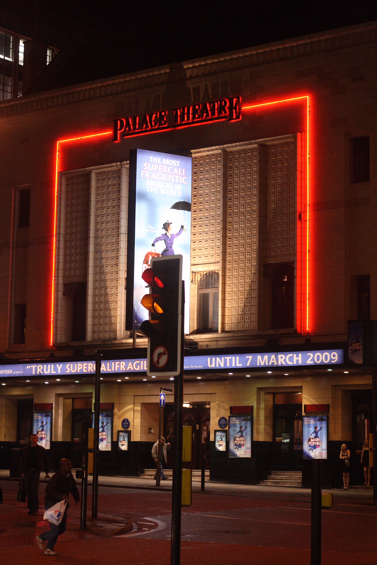 The Palace Theatre, Manchester, taken at night in January 2009